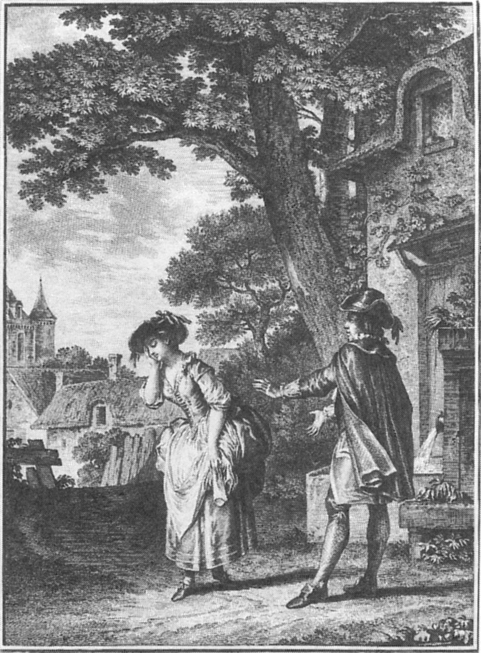 A scene from Jean-Jacques Rousseau's opera Le devin du village, engraving by Jean-Michel Moreau